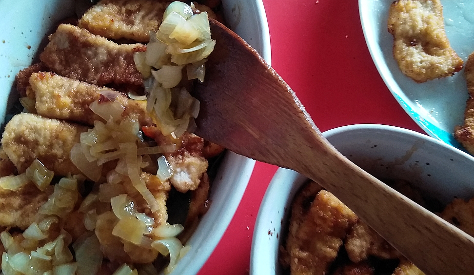 Merinated turkey